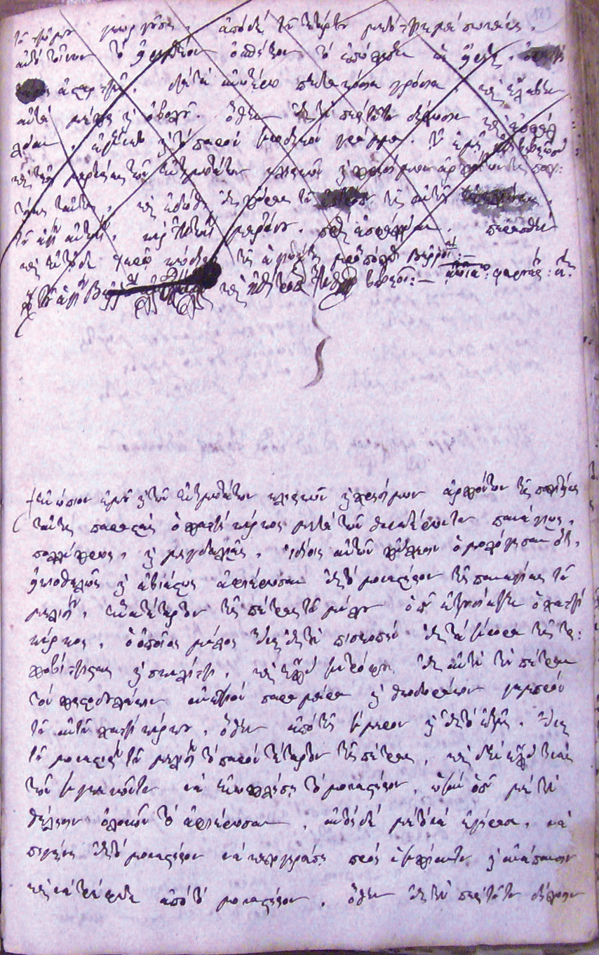 Veria Codex Haci Kyrkos Will 1811